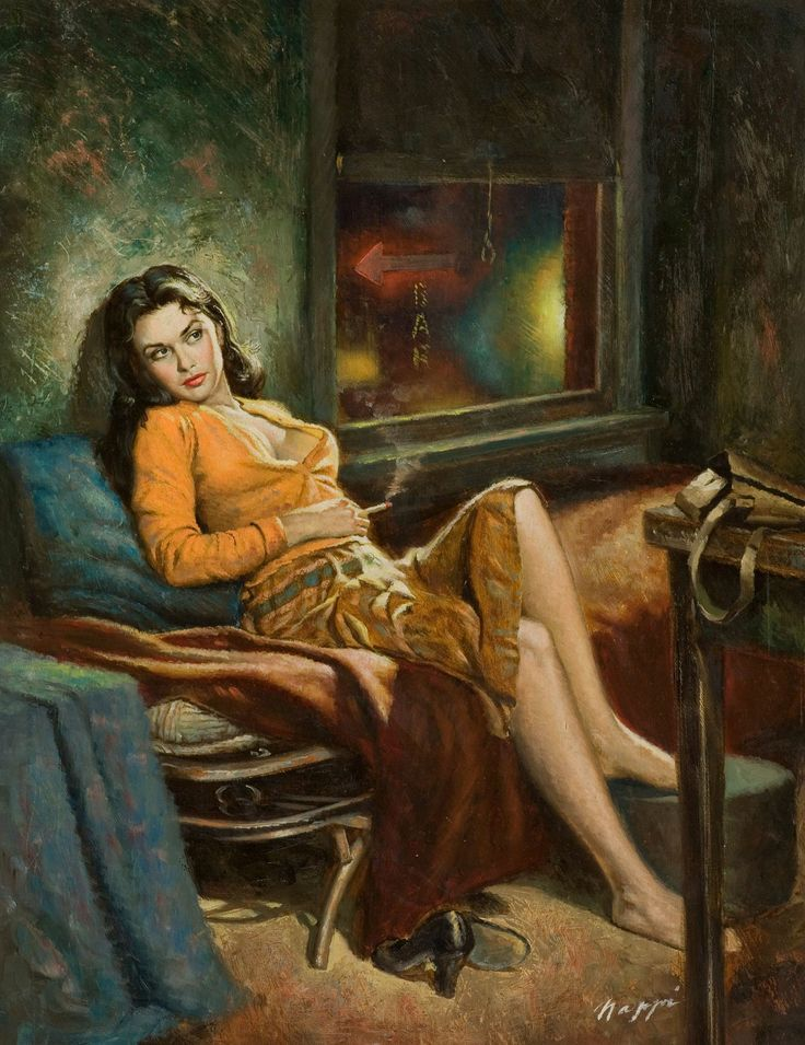 "The Reefer Girl" by Rudy Nappi, 1956